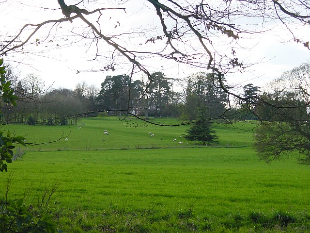 Torry Hill, Frinstead, Kent